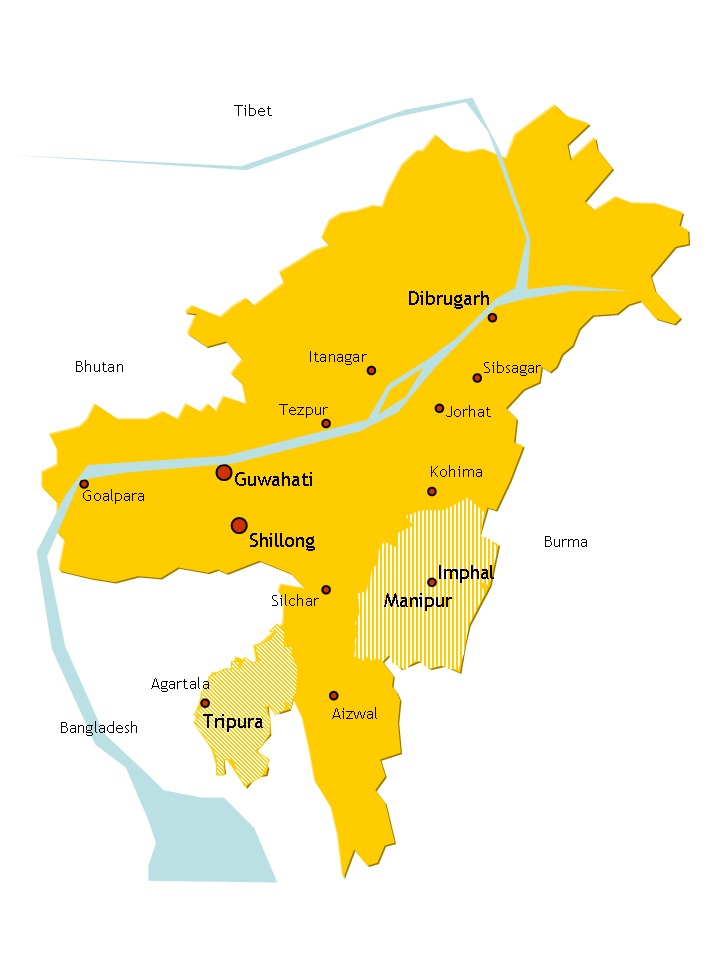 Political boundary of Assam in the 1950s.